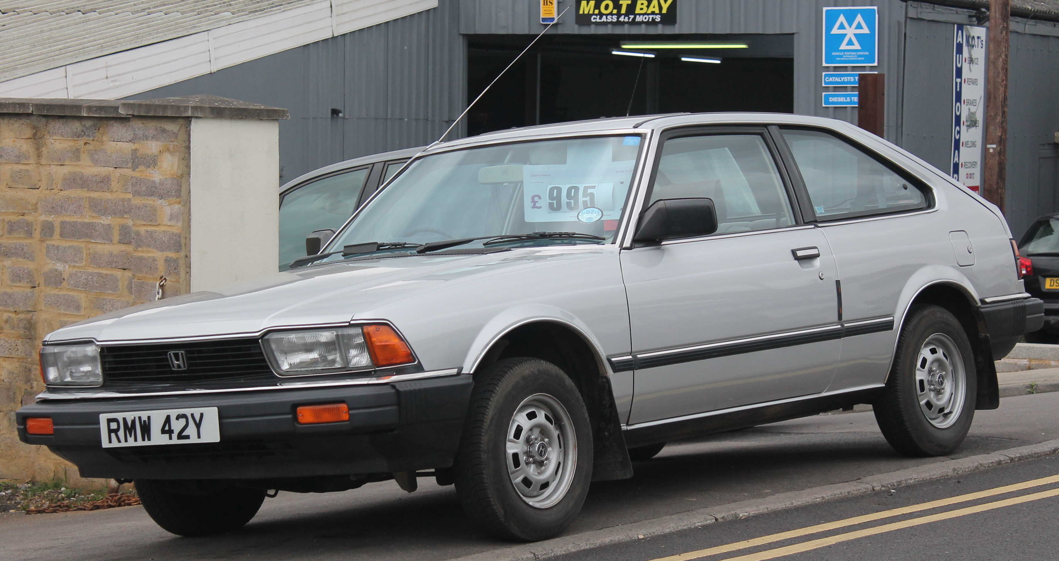 I'm going to leave you with this recent find. Tomorrow, (Sunday) I'm going to be travelling to Ghana, Africa for just under three months where I will be doing voluntary teaching. Due to the very isolated place of work, I'm very unlikely to be able to upload any finds in the time I'm away, so please don't think I've left for good! I'm taking my small and not so good camera with me to Ghana, and trusting it doesn't get stolen, I will hopefully find some really interesting old cars! I'd like to thank you all for viewing and taking an interest in my photos, I will hopefully be back in late June with some more uploads of old and unusual cars. Please stick with me! Also, wish me luck! It'll be my first time out of Europe, so a whole new experience. I'm certainly looking forward to it. See you all later and thank you to everyone! Charlie This is a 1982 Honda Accord three door hatchback , and is one of 3 on the roads, 1 other being from 1982. At the time of the photo (24th March), it was for sale at this garage in Trowbridge, Wiltshire for £995, a bit of a bargain, I'm sure! Goodbye for now... I'll be back!